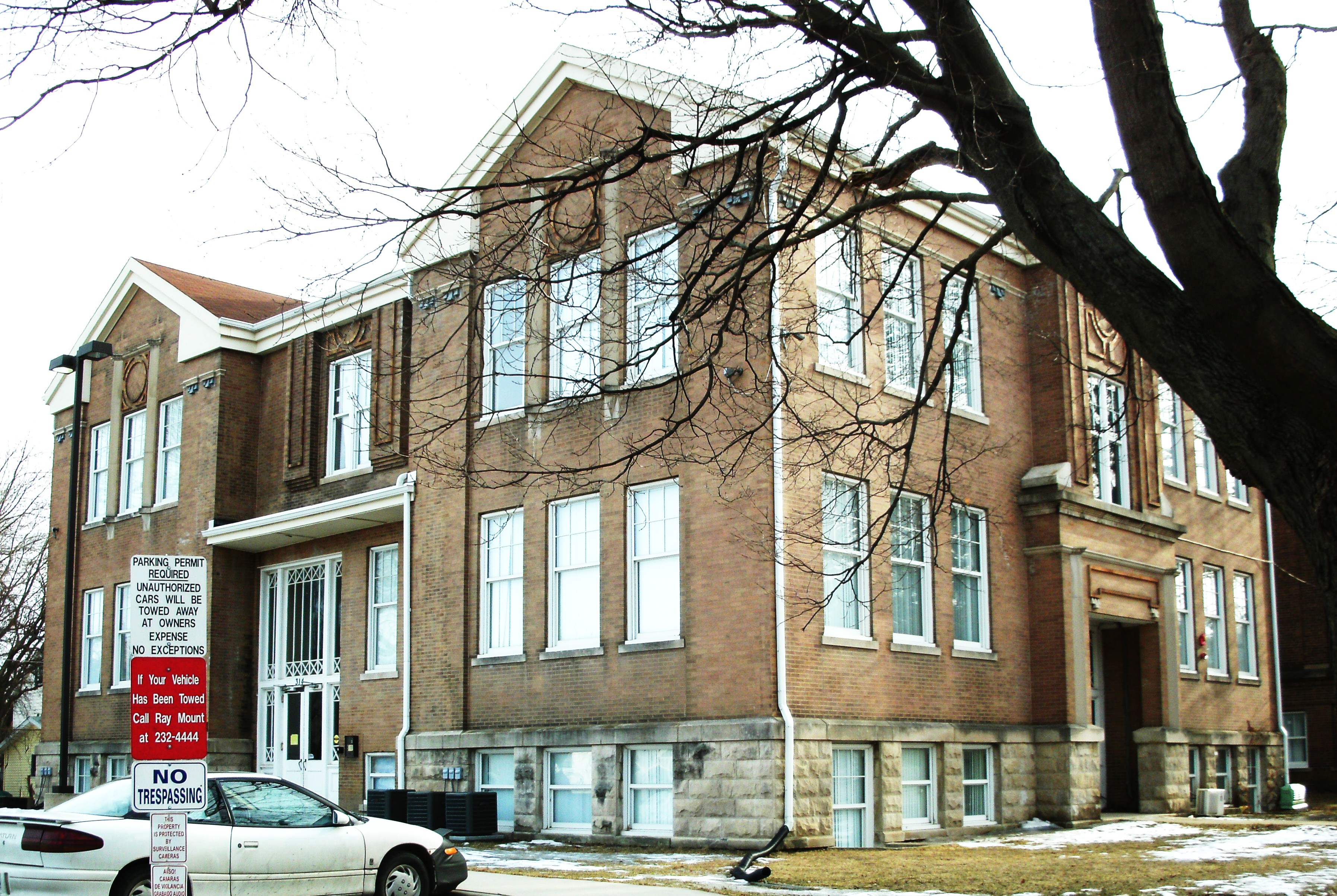 Emerson School located at 314 Randolph Street in Waterloo, Black Hawk County, Iowa is on the National Register of Historic Places